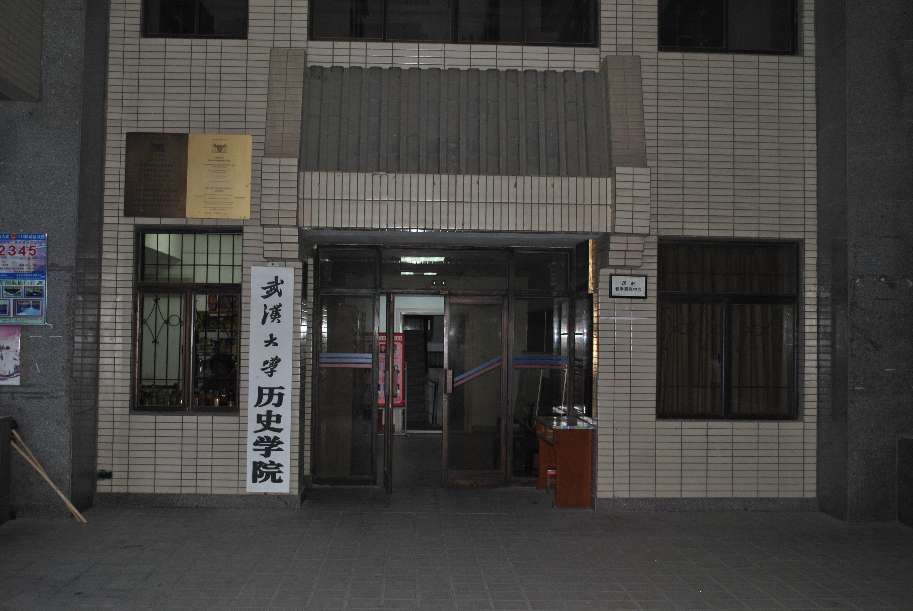 Wuhan University College of History